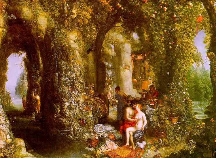 A Fantastic cave with Odysseus and Calypso